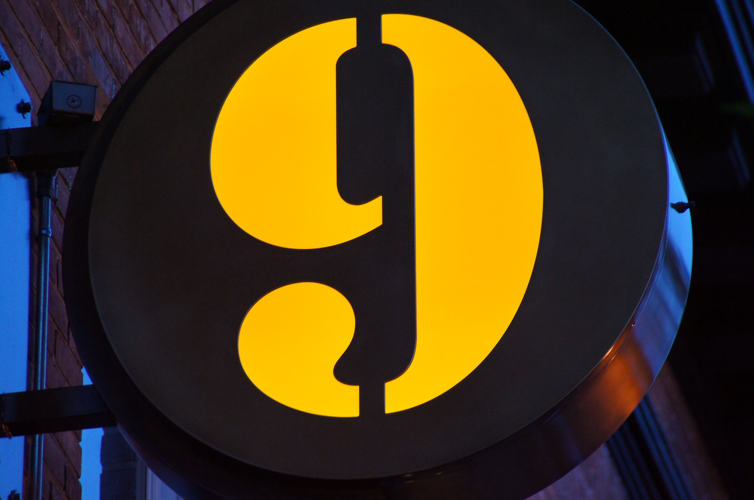 A number nine in a street.